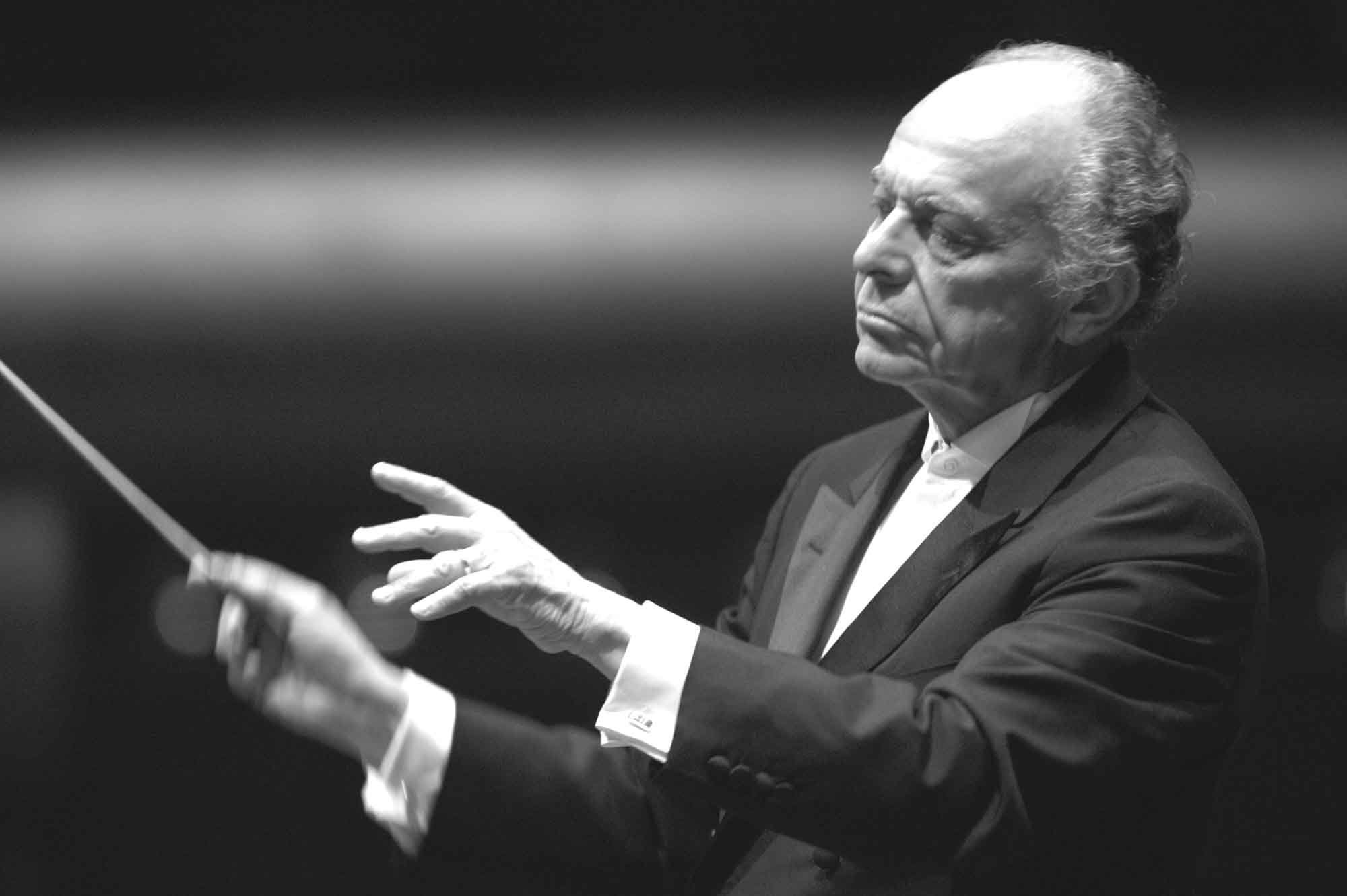 Conductor Lorin Maazel; date and place of original photograph are unfortunately not given.